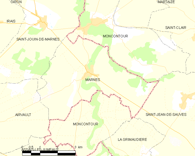 Map of French municipality Marnes